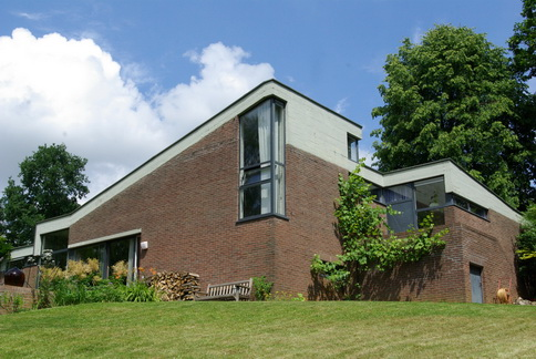 Modern architect Marc Dessauvage designed the family house Verbeeck in Pellenberg, Belgium in 1966